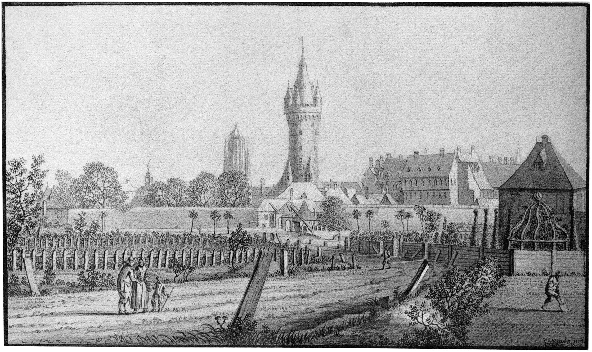 Frankfurt on the Main: In front of the Eschenheimer Tor (Eschenheimer Gate)